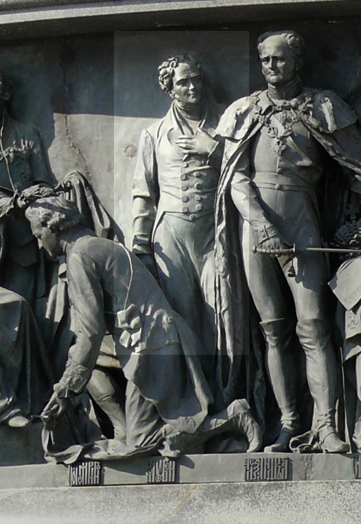 В. П. Кочубей на Памятнике "1000-летие России" в Великом Новгороде